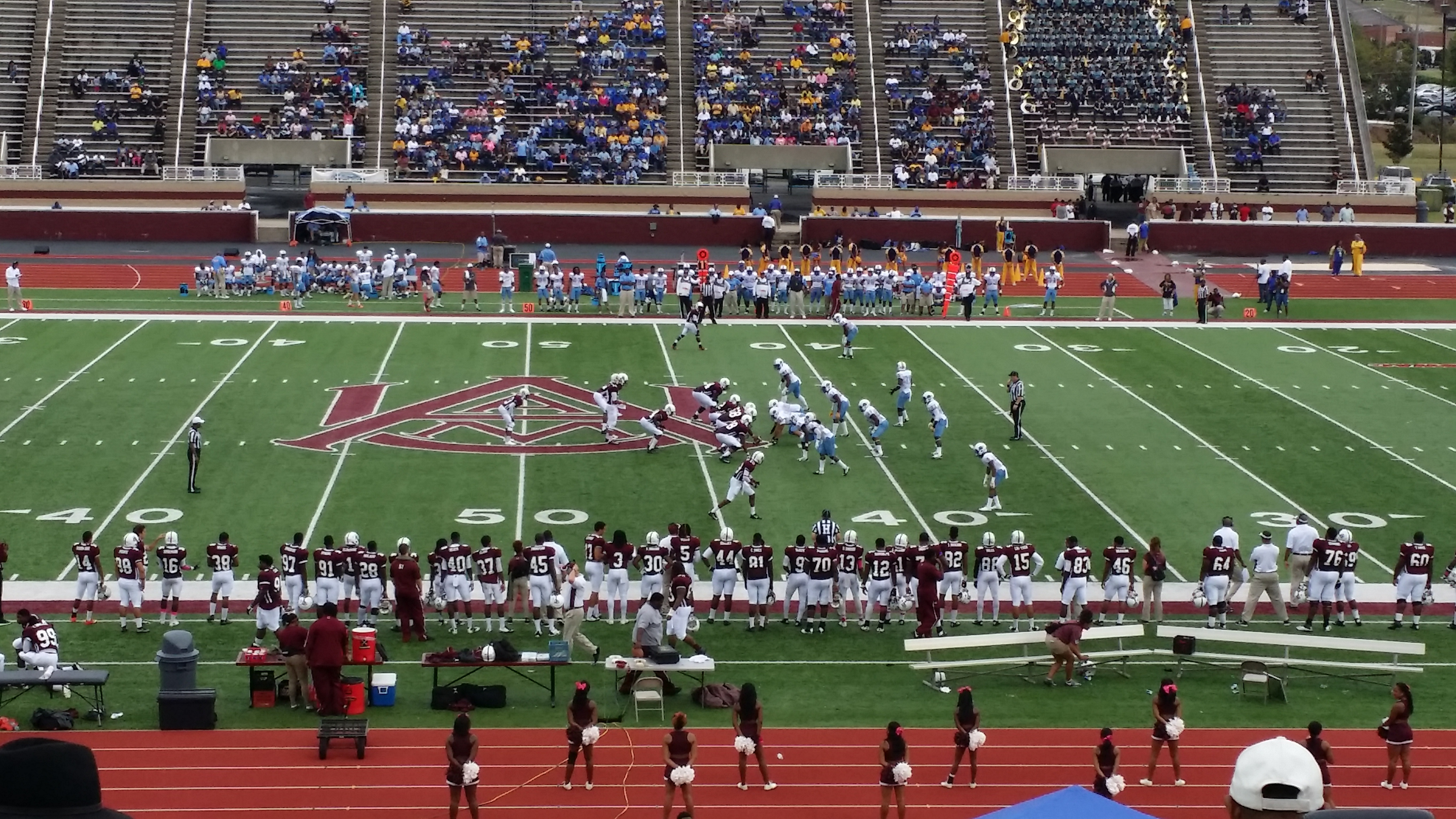 AAMU vs Southern University 2014